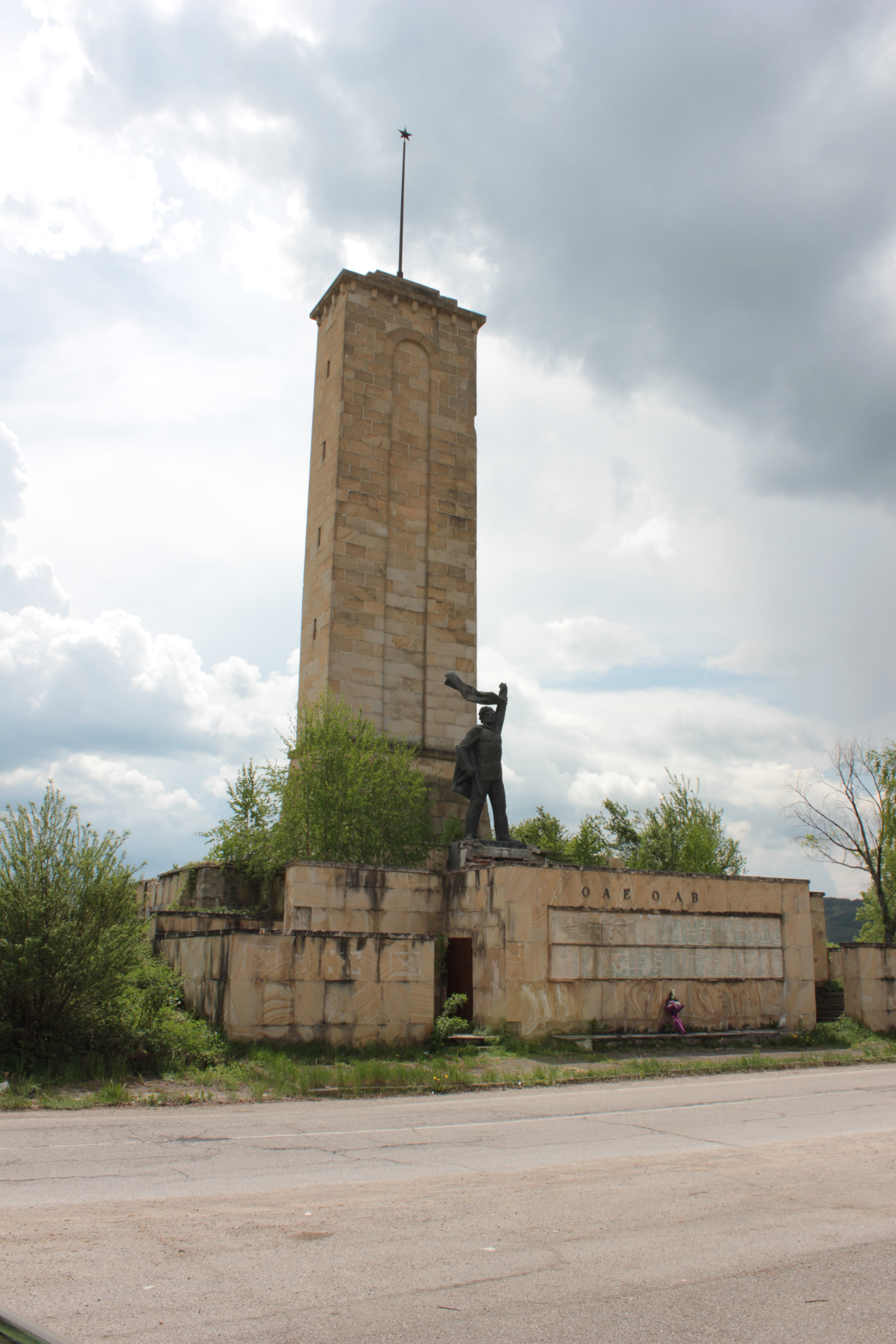 Slishovtsi Ossuary